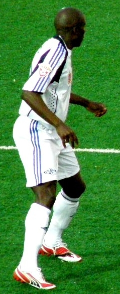 Benoît Angbwa in action for FC Saturn Ramenskoye